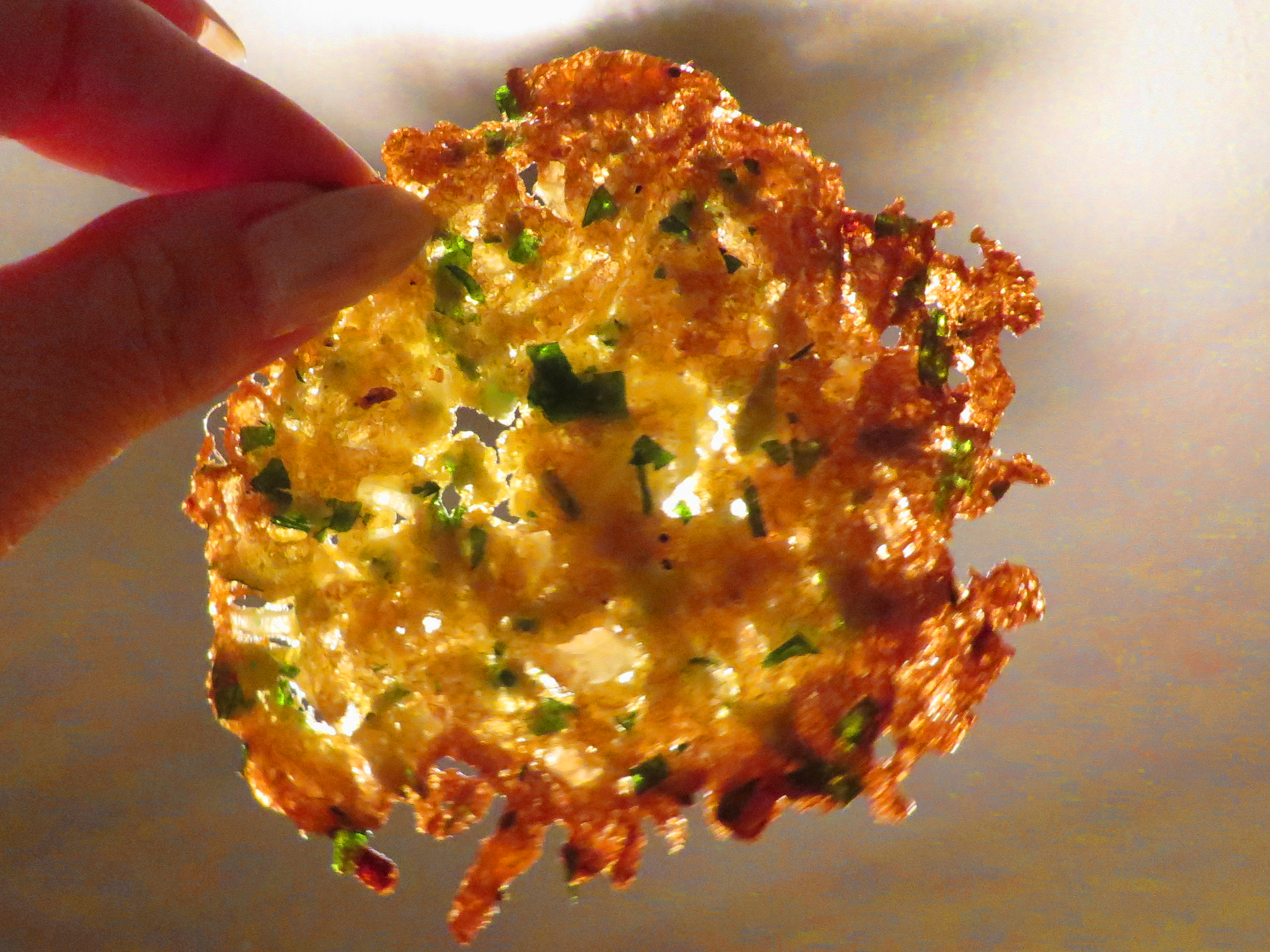 Tortilla de camarones según cánones de Sanlúcar de Barrameda